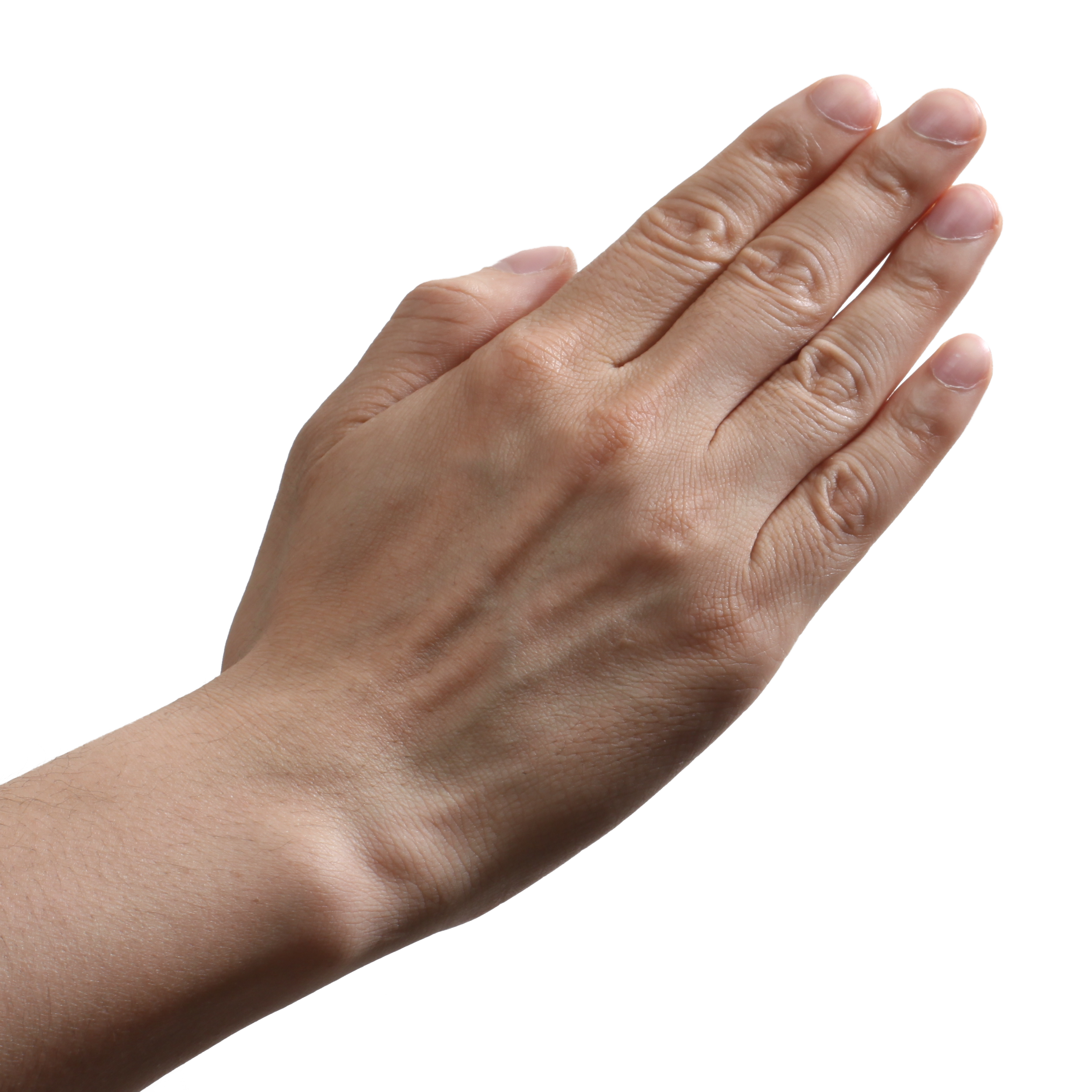 Paper, represented by an open hand, with the fingers connected.